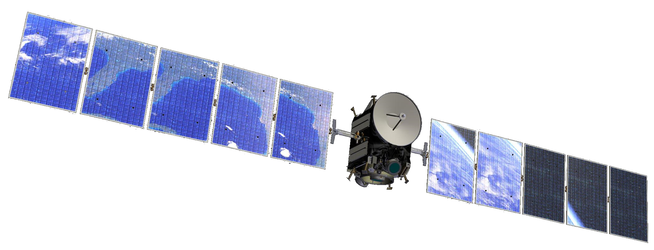 A transparent image of the Dawn spacecraft.